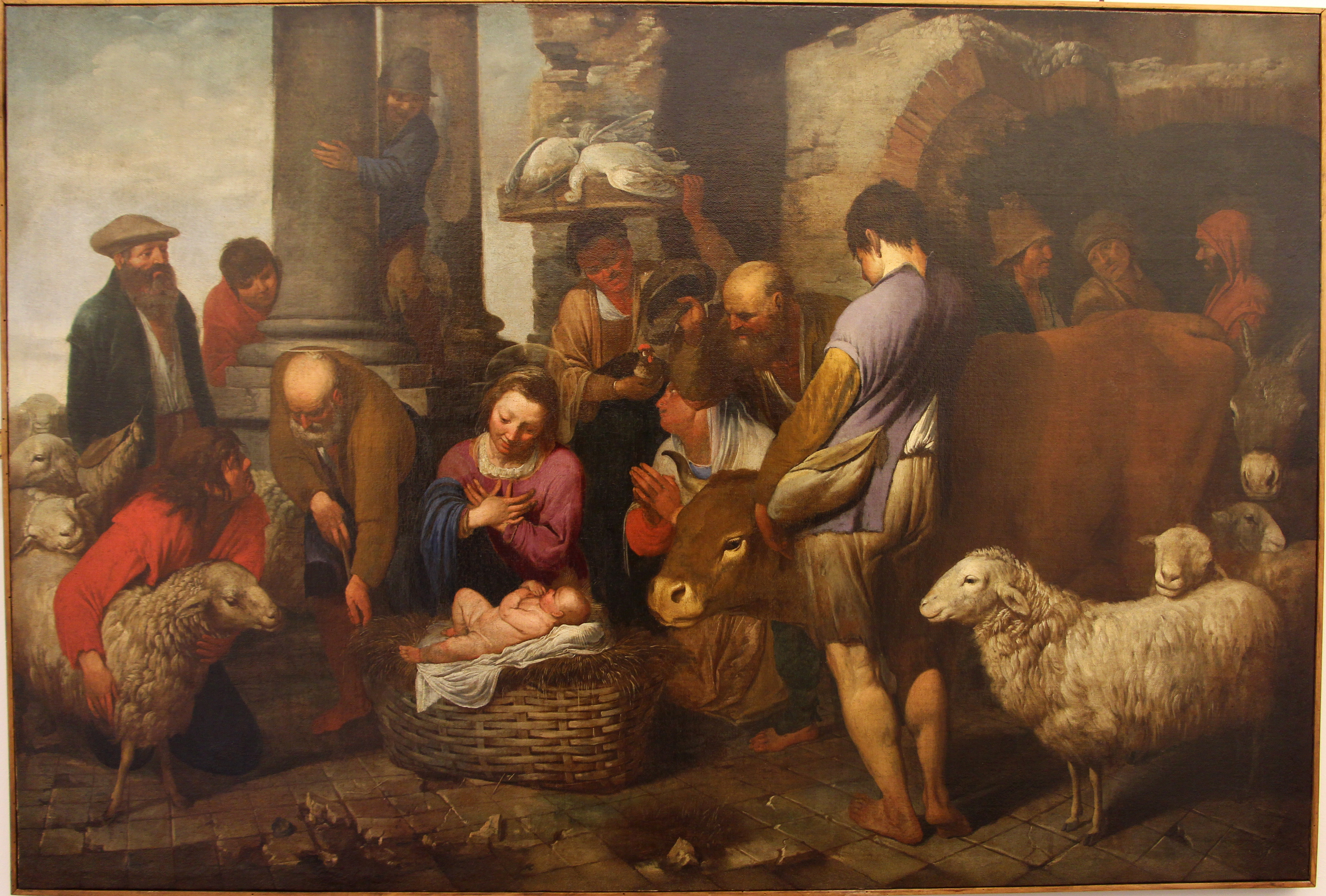 The making of this document was supported by Wikimedia CH. (Submit your project!) For all the files concerned, please see the category Supported by Wikimedia CH. This is a photo of a monument which is part of cultural heritage of Italy.